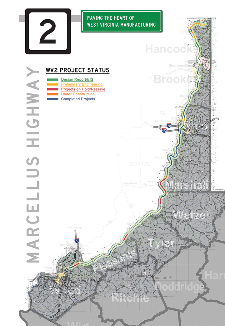 Various stages of expanding Route 2 from a 2-lane to a 4-lane highway